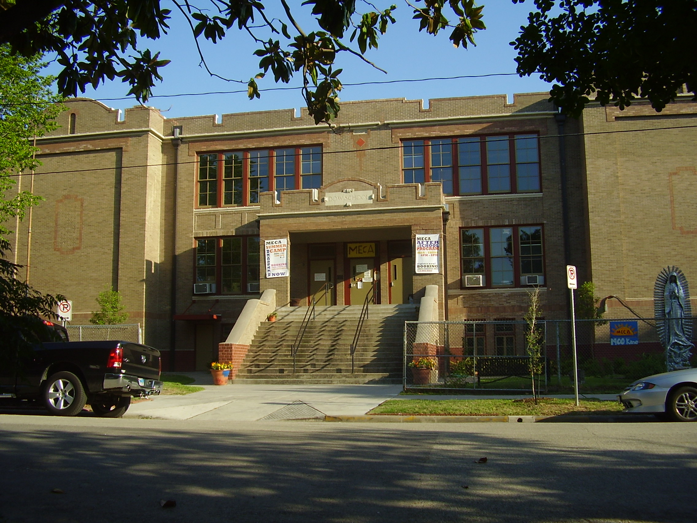 Dow Elementary School